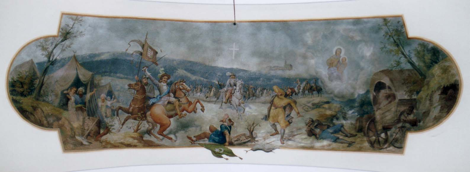 The Battle of Saint Gotthard (1664); triumphal arch in Church St. Joseph, into the village of Mogersdorf